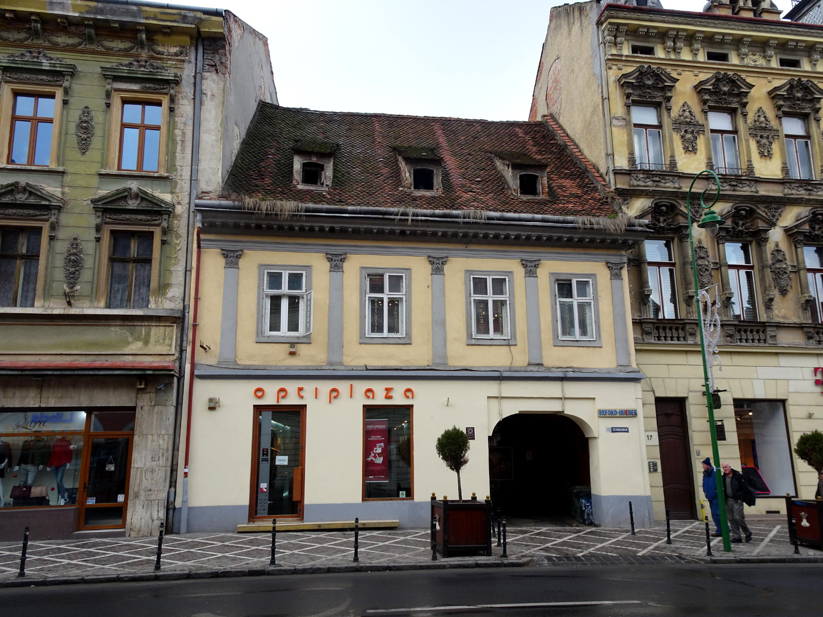 Str Muresenilor, house number 15, Brasov, Romania